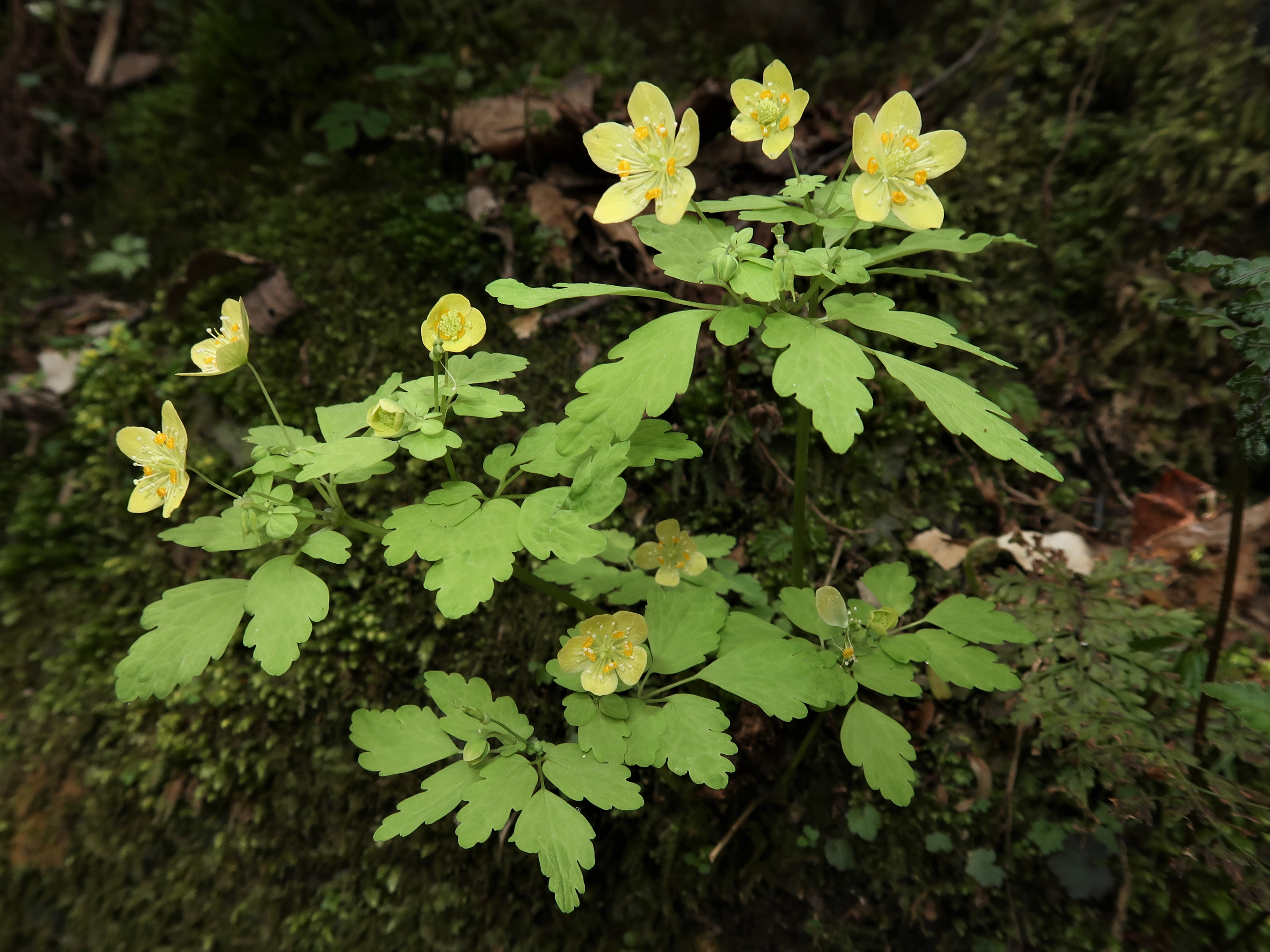 Dichocarpum pterigionocaudatum, Takashima city, Shiga pref., Japan